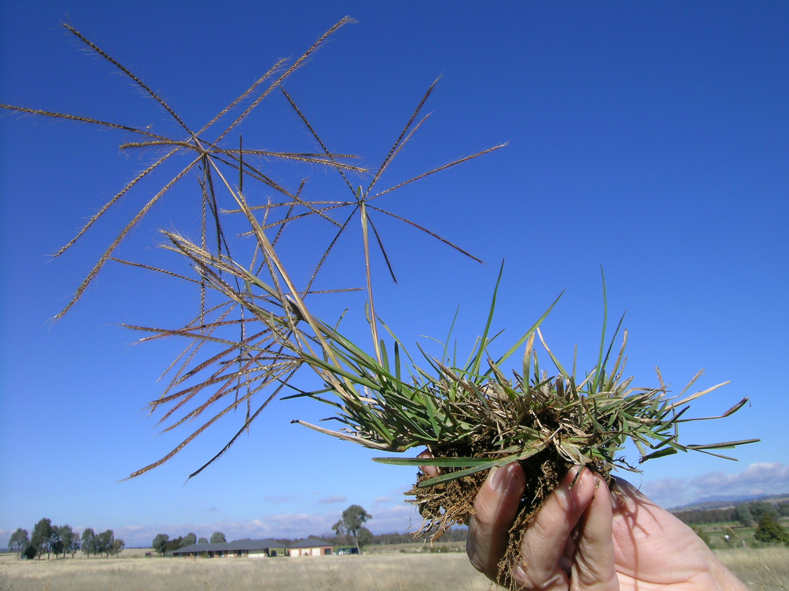 Native, warm-season, annual or short-lived perennial, erect, hairless, tufted grass usually less than 50 cm tall and forming a dense low crown; sometimes short stolons are present. Stems are unbranched and flattened with a kneelike bend near their base. Mostly found along roadsides and in native pastures where groundcover and fertility are relatively low; rarely abundant on the coast.